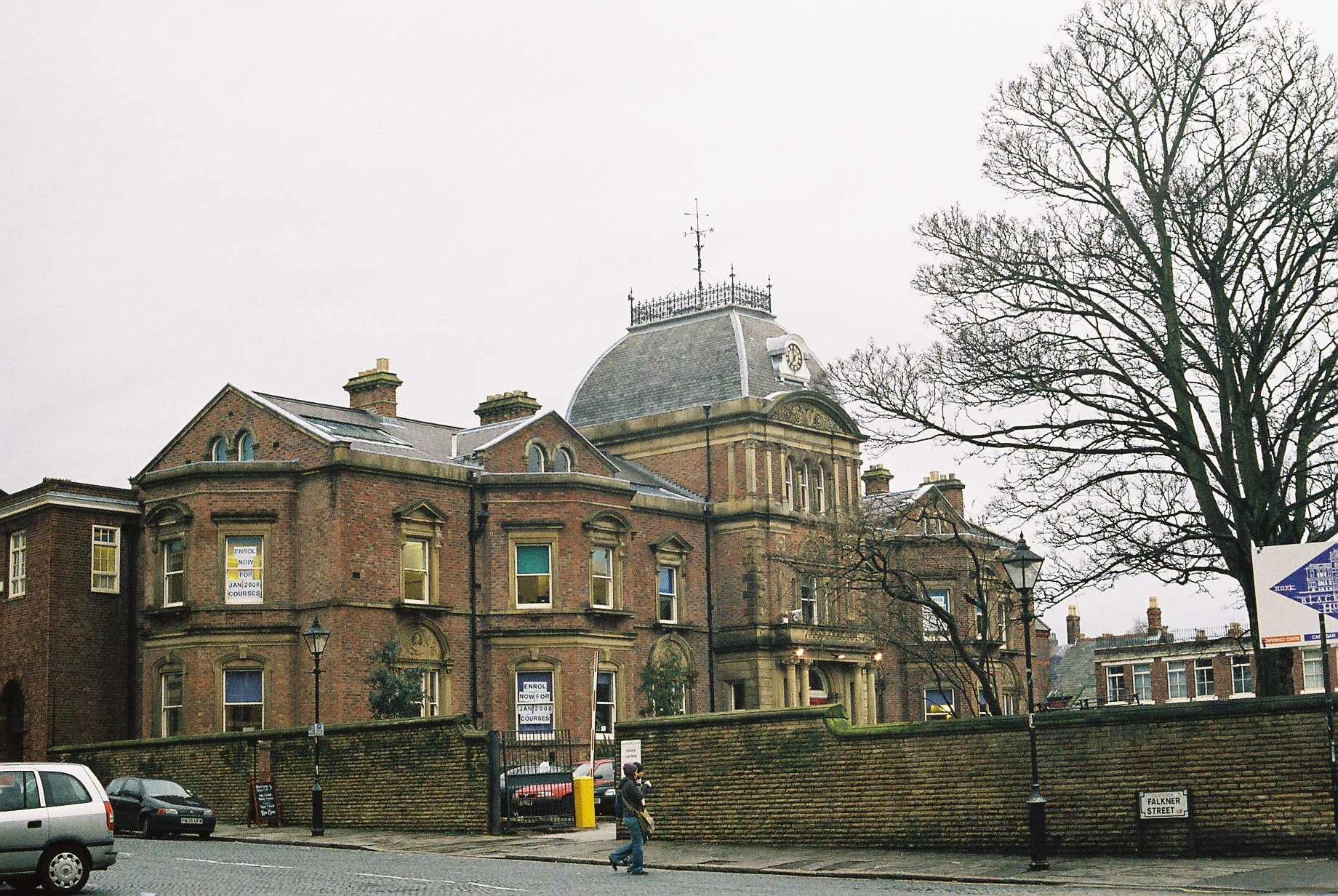 Blackburne House